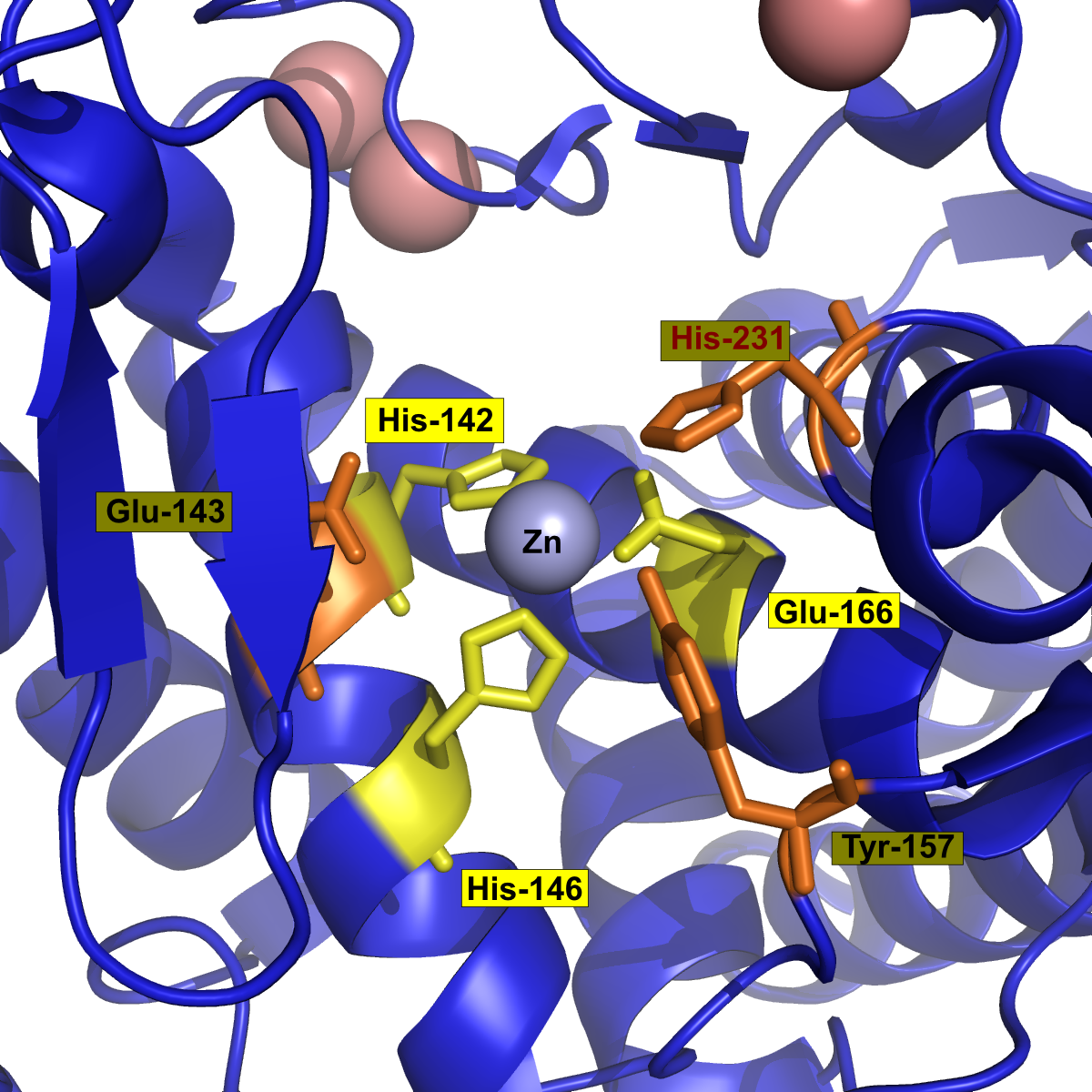 (detail of) ribbon model of thermolysin with zinc binding amino acids in yellow, other amino acids important for catalysis in orange; zinc is light blue, the six calcium are in salmon. From PDB 2A7G. Ref.: C.Mueller-Dieckmann et al. (2005). On the routine use of soft X-rays in macromolecular crystallography. Part III. The optimal data-collection wavelength.. Acta Crystallogr D Biol Crystallogr, 61, 1263-1272. PMID 16131760 [